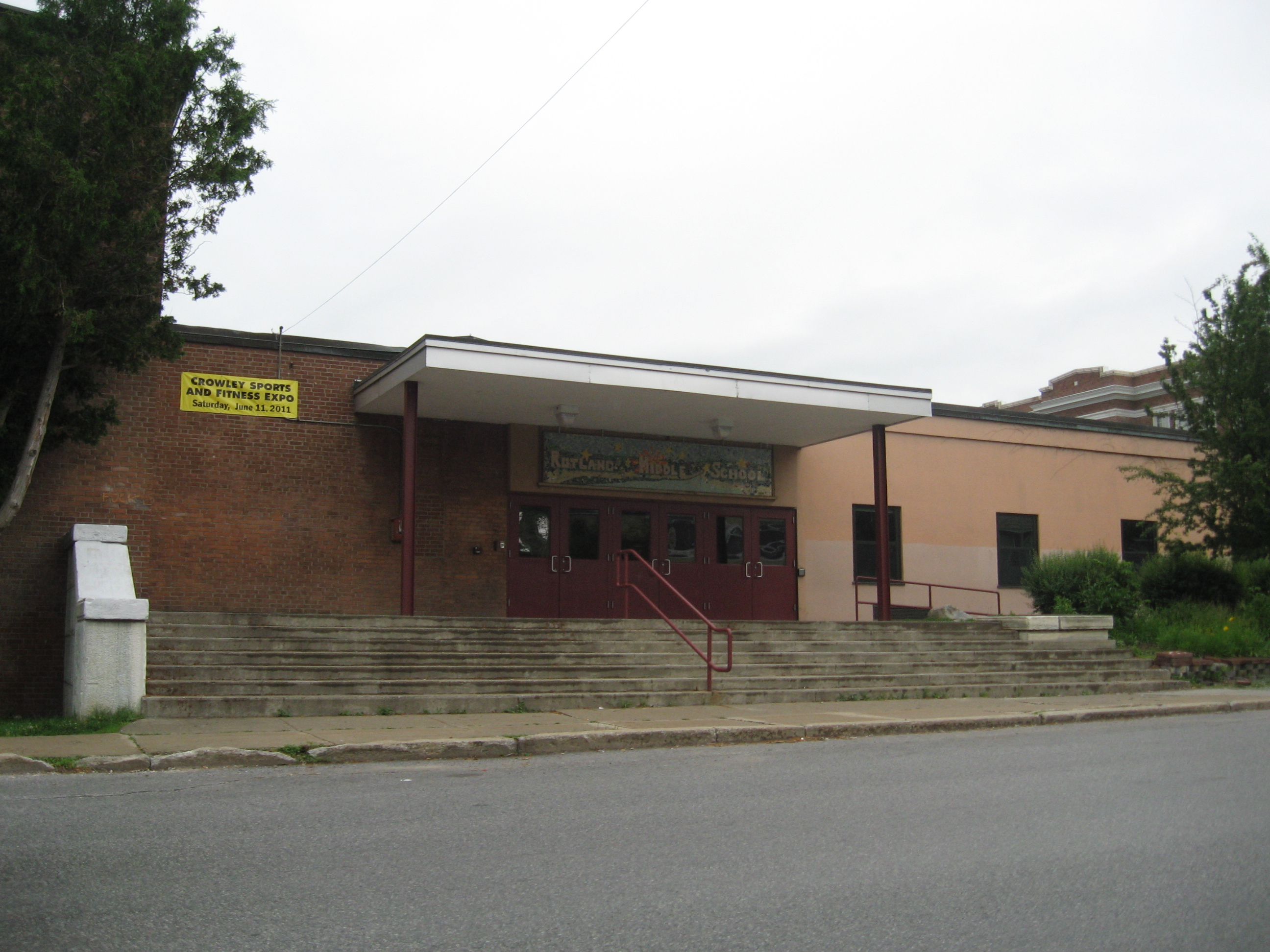 Entrance to Rutland Middle School on Library Avenue.